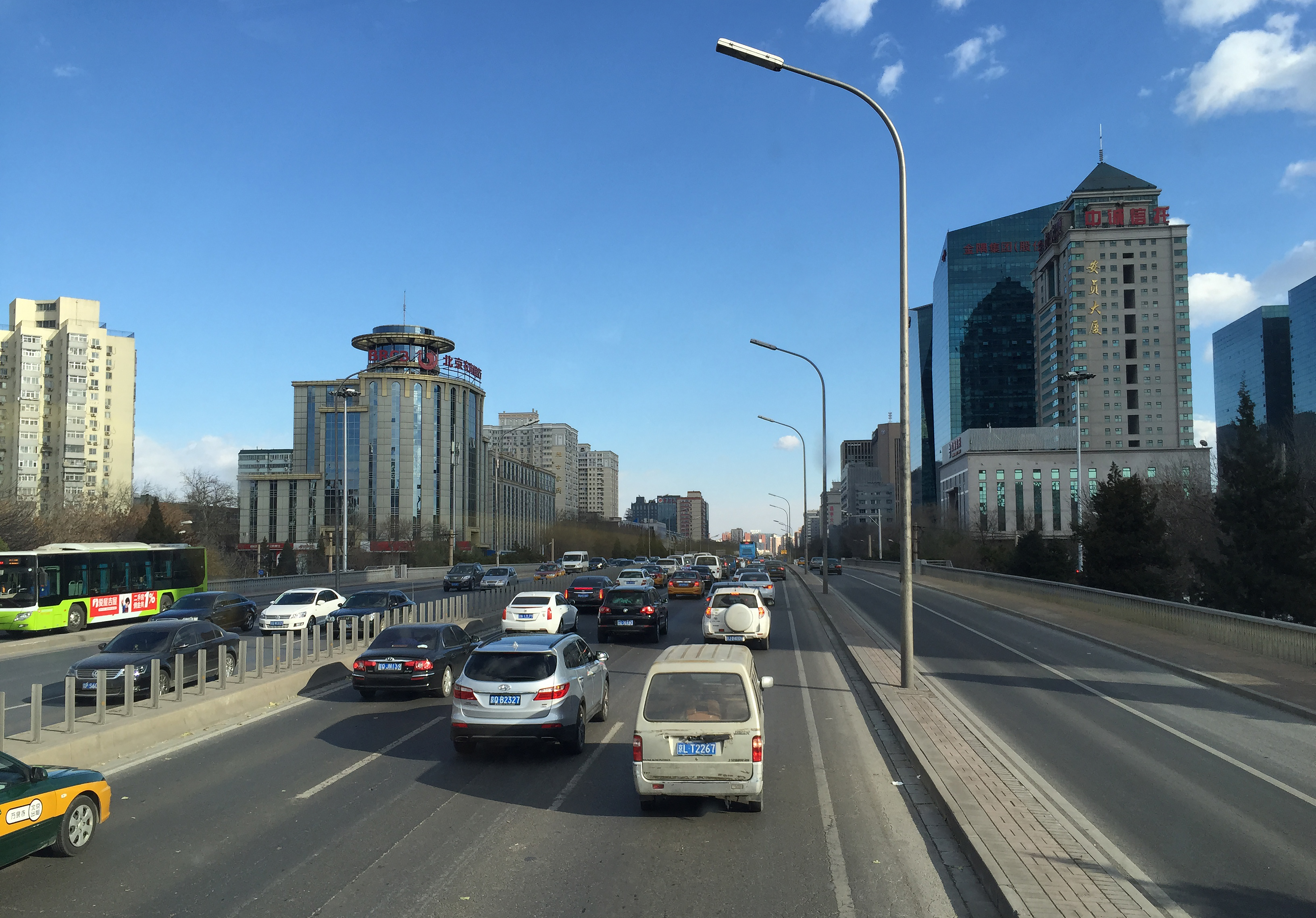 Taken from the upper deck of T8.